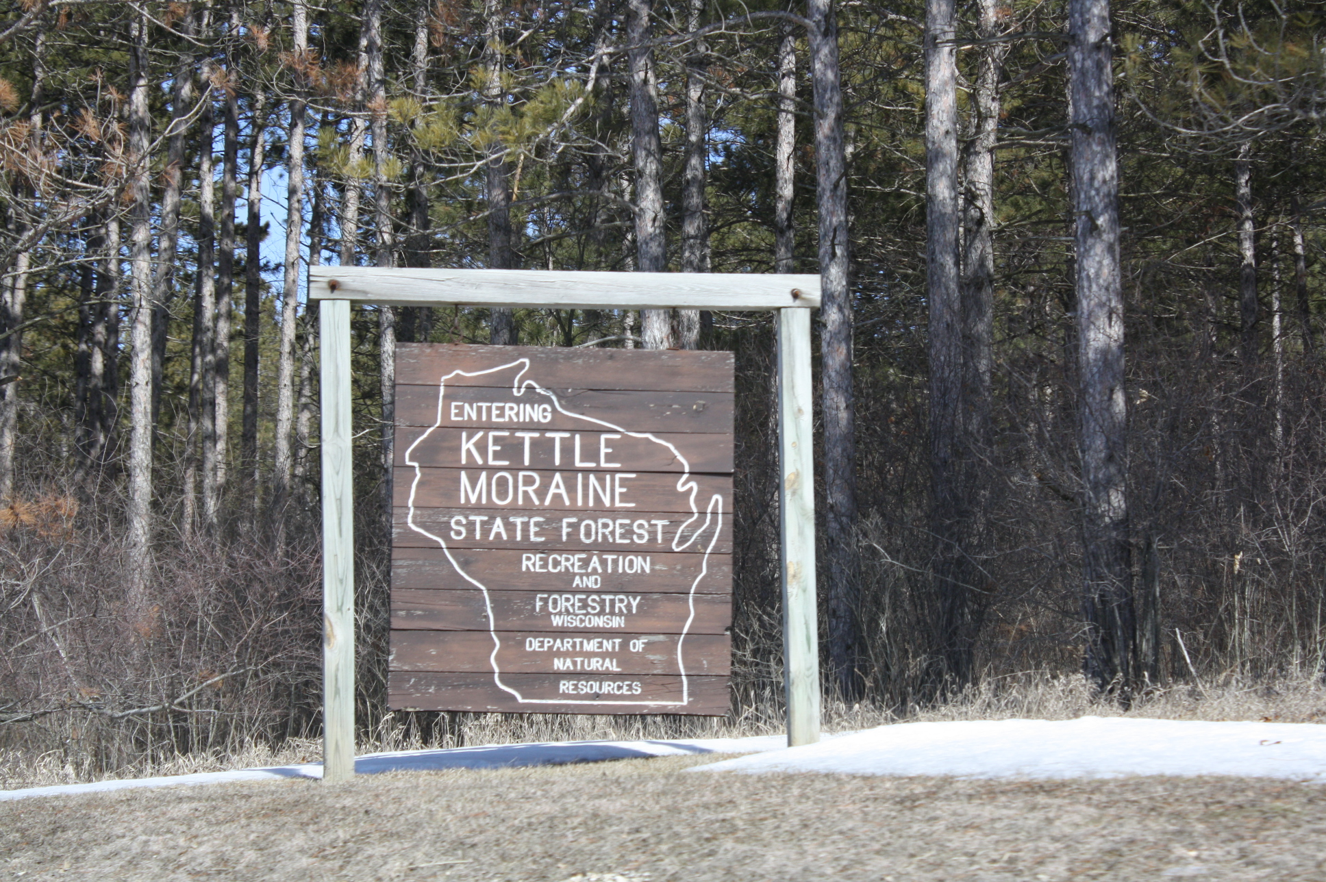 The sign for the Southern Unit of the Kettle Moraine State Forest.